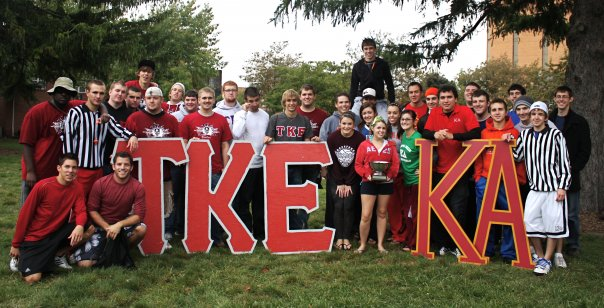 Bowling Green State University Students and Members of the Kappa Alpha Order and Tau Kappa Epsilon at their joint philanthropy